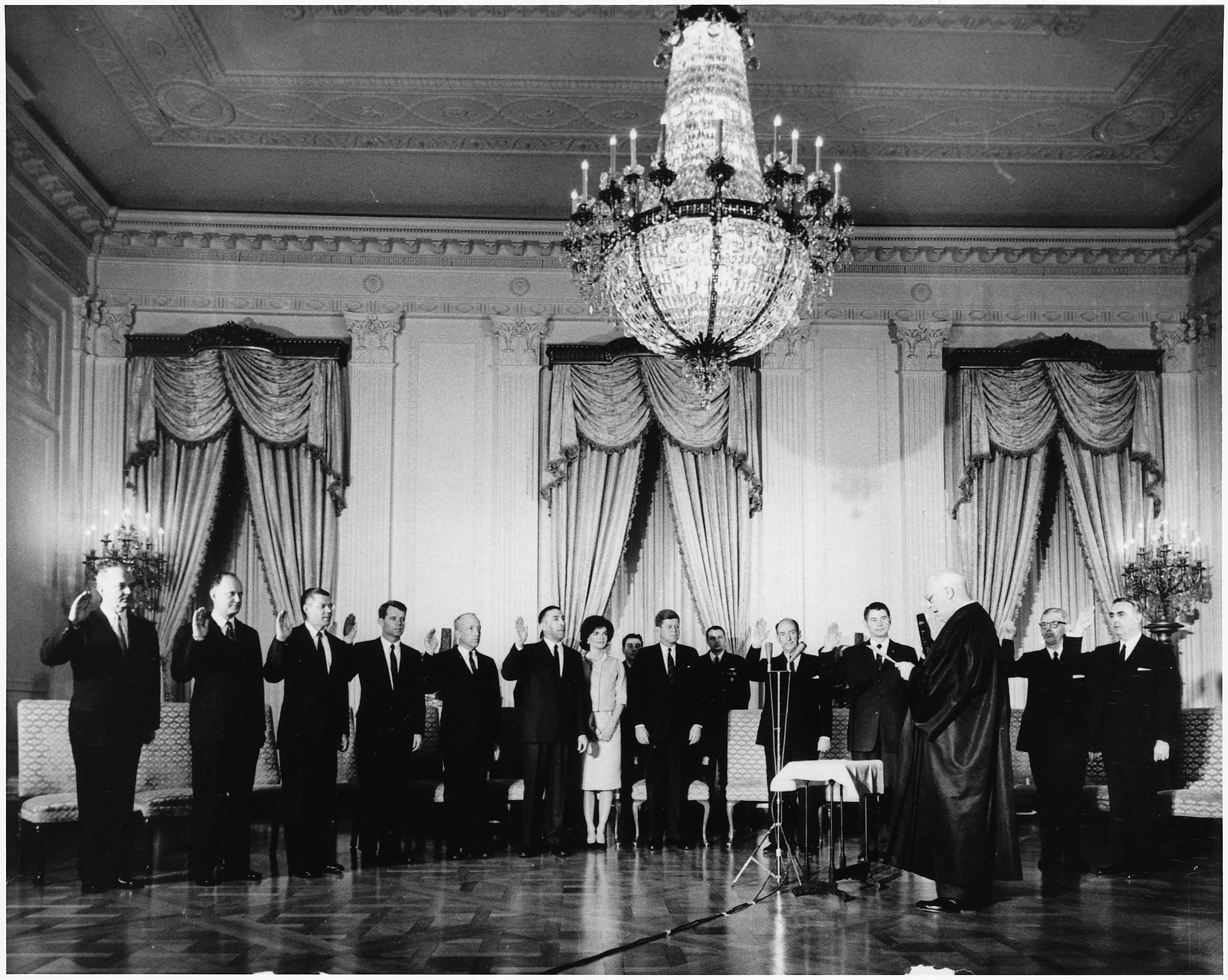 Scope and content: Swearing-In Ceremony of President Kennedy's Cabinet. Chief Justice Earl Warren administers Oath to (L-R) Dean Rusk, Sec. State, Douglas Dillon, Sec. Treasury, Robert S. McNamara, Sec. Defense, Robert F. Kennedy, Attorney General, J. Edward Day, Postmaster General, Stewart Udall, Sec. Interior, Mrs. Kennedy, President Kennedy, Adlai E. Stevenson, Representative to the U.N., Orville Freeman, Sec. Agriculture (hidden: Luther Hodges, Sec. Commerce) Arthur Goldberg, Sec. Labor, Abraham Ribicoff, Sec. Health, Education & Welfare. ( In rear: Gen. C.V. Clifton, Military Aide, Col. Godfrey McHugh, Air Force Aide, Cmdr. Tazewell Shepard, Naval Aide ) White House, East Room.